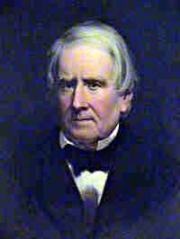 George Gray Leiper, US Representative from Pennsylvania